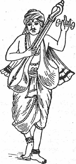 पुरंदरदास